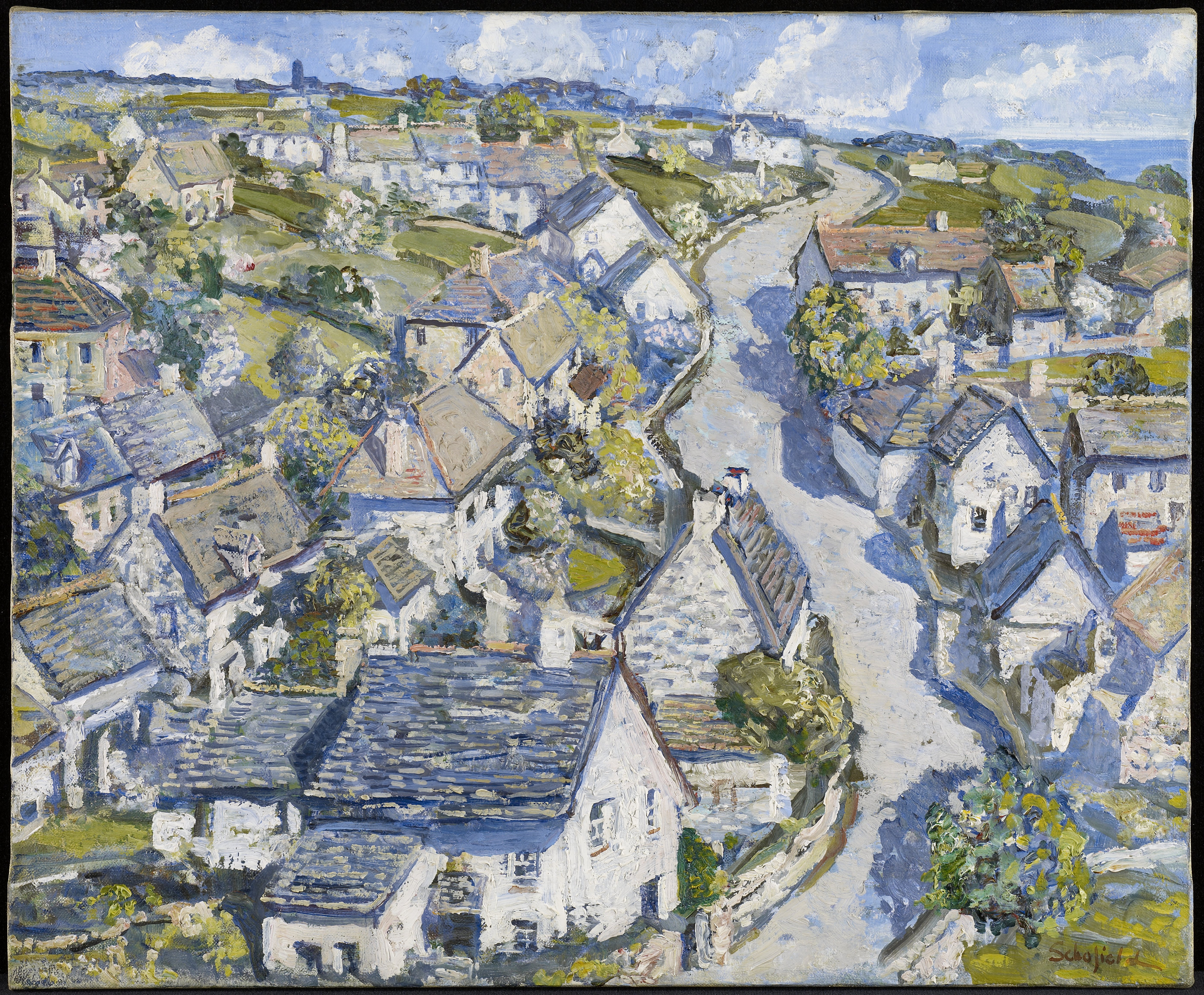 village; street on right side front to back; small fields upper left; water upper right; both sides of street with houses close together and a few scattered small trees; thickly painted